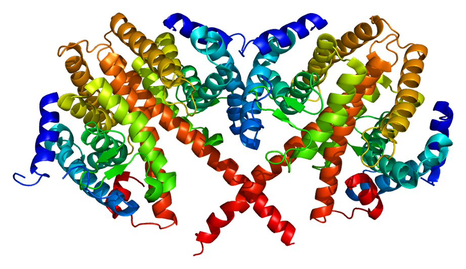 Structure of the HNF4A protein. Based on PyMOL rendering of PDB 1m7w.